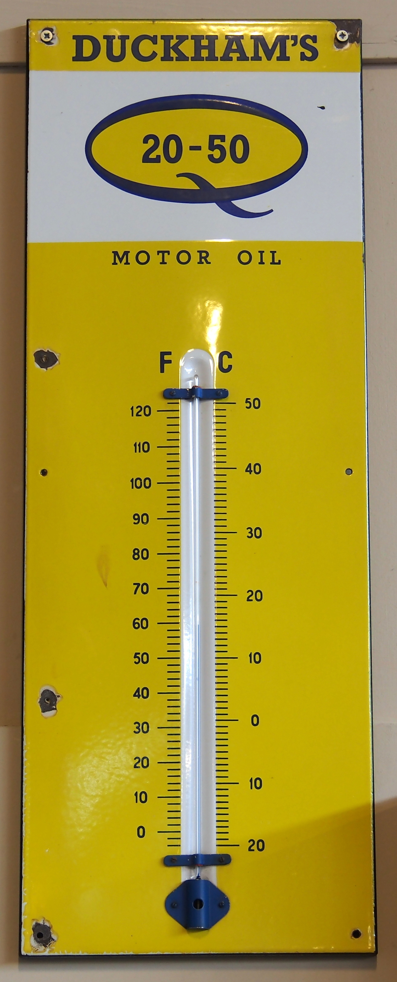 Photographed in the den Hartogh Ford museum. Enamel advert, Duckham's 20-50 motor oil.